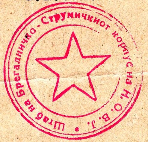 The seal of the Bregalnica-Strumica Army, NLW, 1944. This media file is produced by Wikipedian in Residence in Category:Wikipedian in Residence at DARM in 2017.